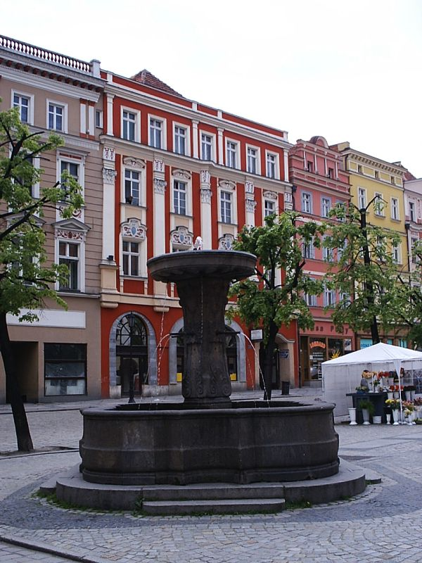 Świdnica, Poland, Old town, fountain.